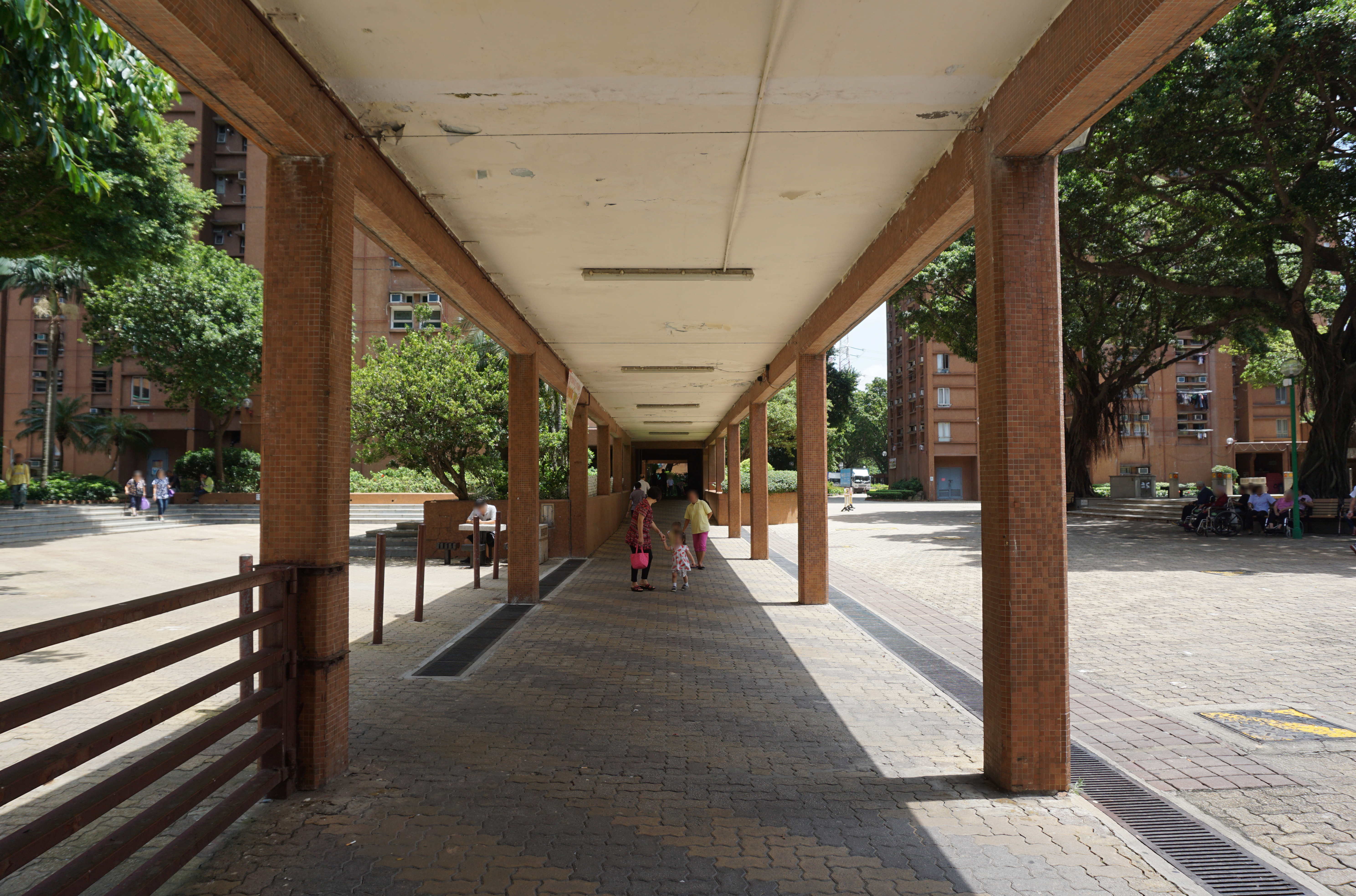 Siu Hong Court in Tuen Mun, Hong Kong.